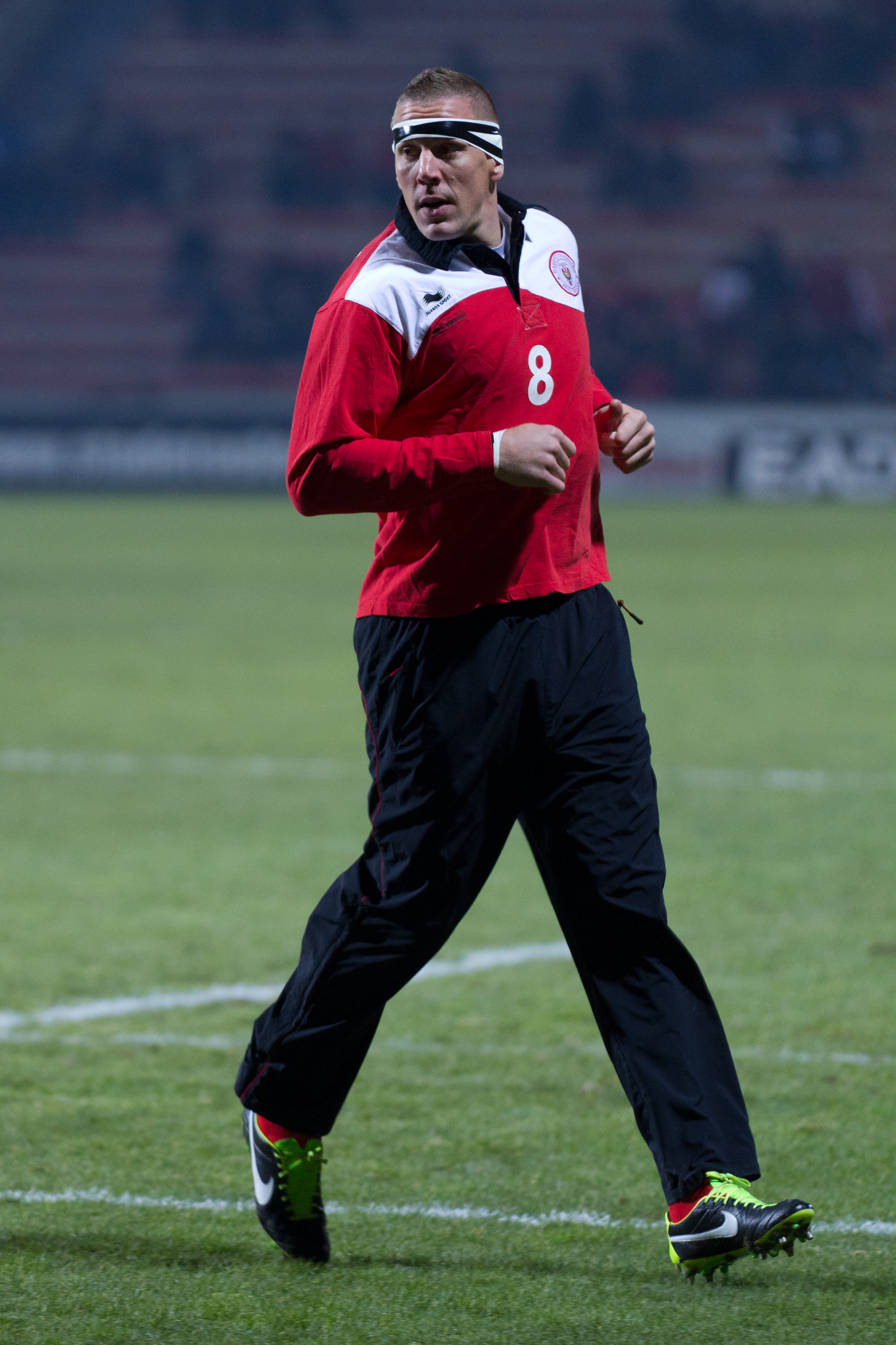 Imanol Harinordoquy